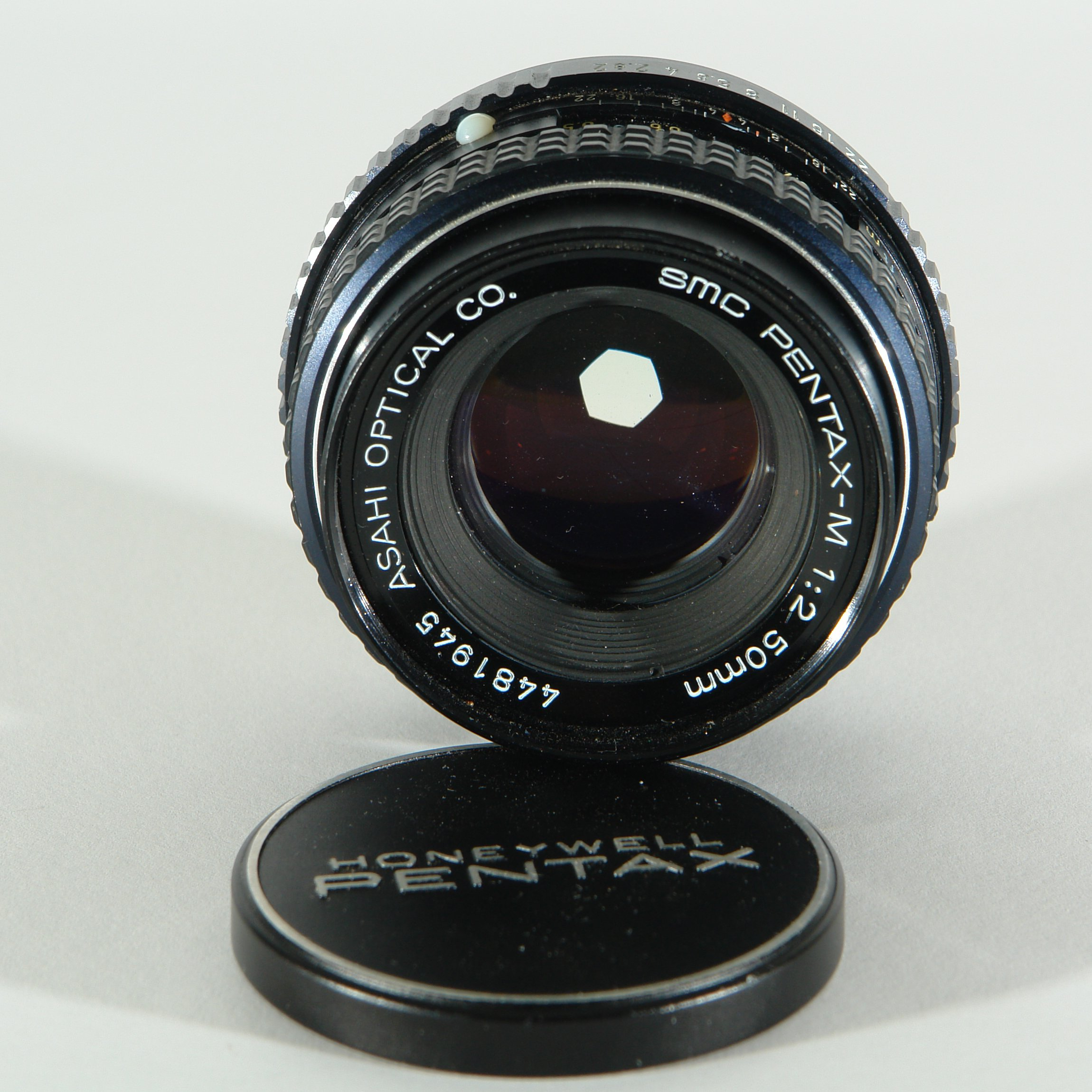 Pentax SMC M 50mm f/2 K-mount lens